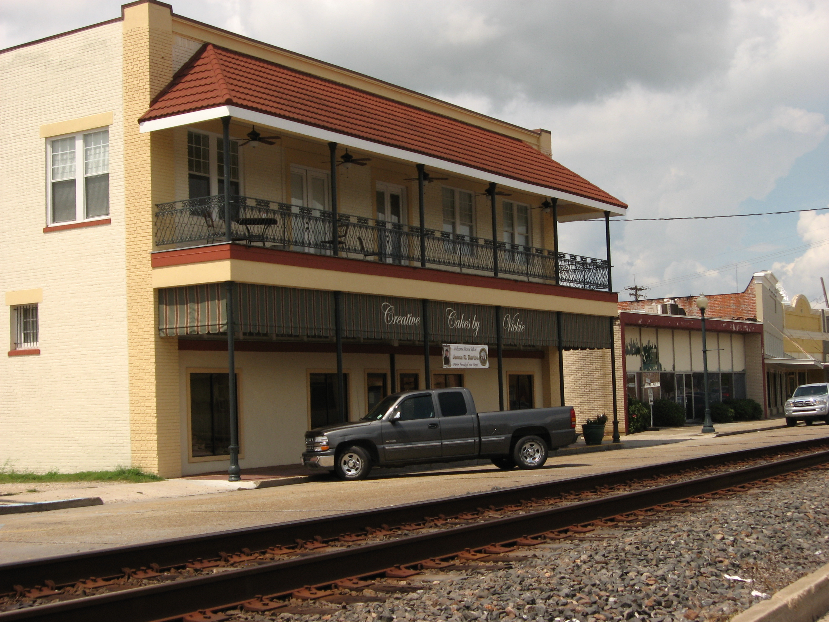 Plaquemine is a city in and the parish seat of Iberville Parish, Louisiana, United States. Street scene with building housing cake bakery.